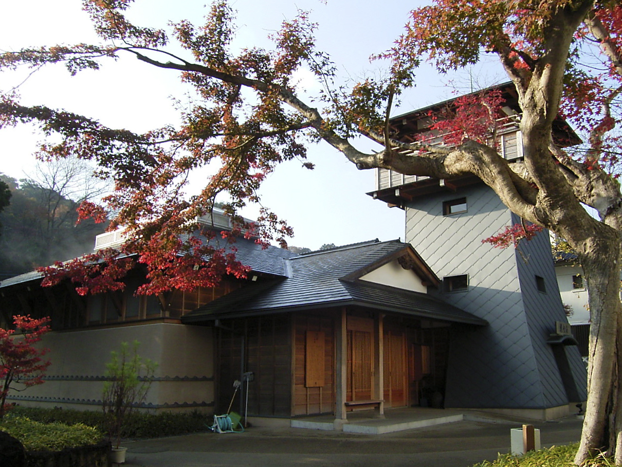 A Hakoyu of Shuzenji spa resort is located in Izu city, Shizuoka prefecture, Japan.